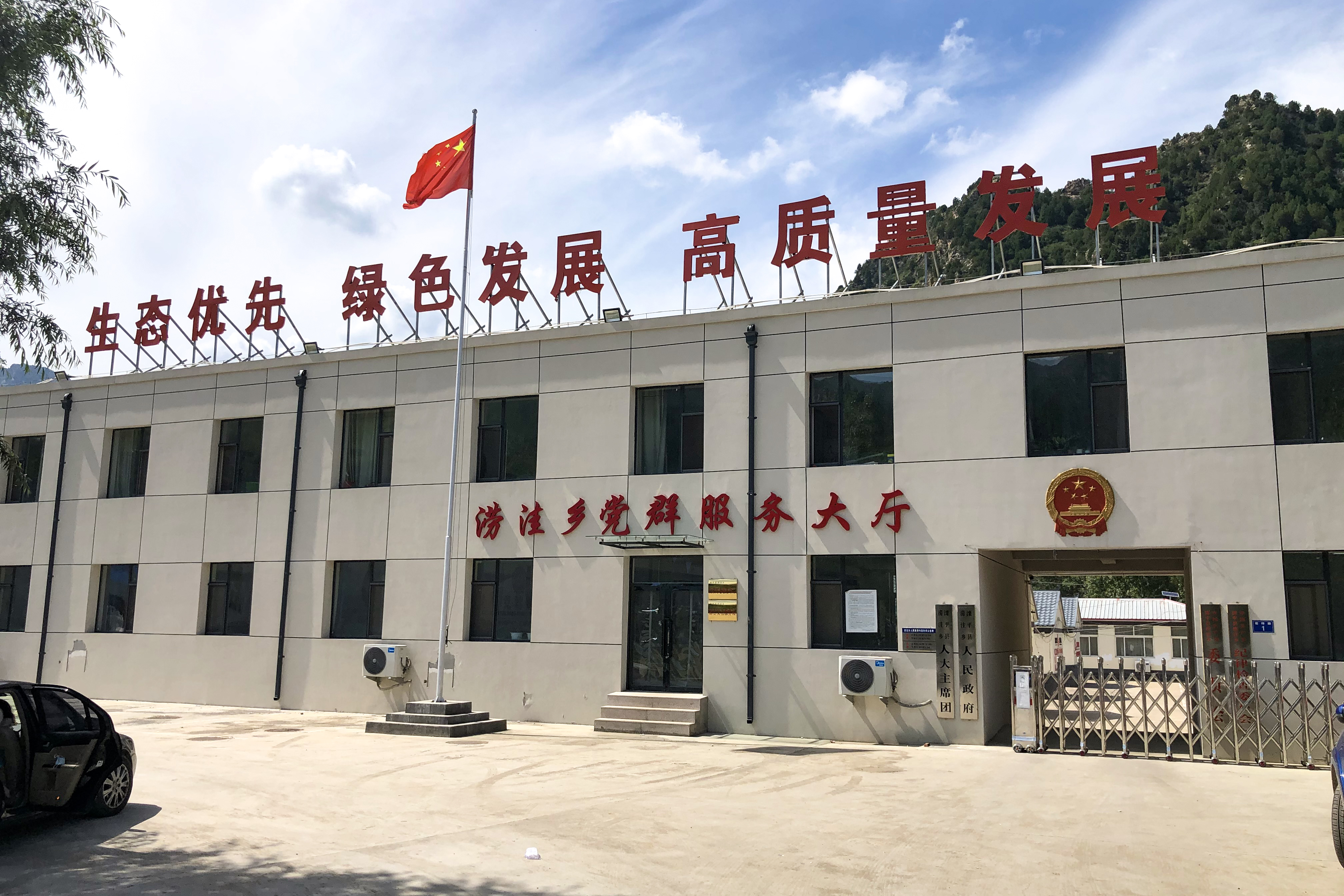 A few kilometers from Miyun...